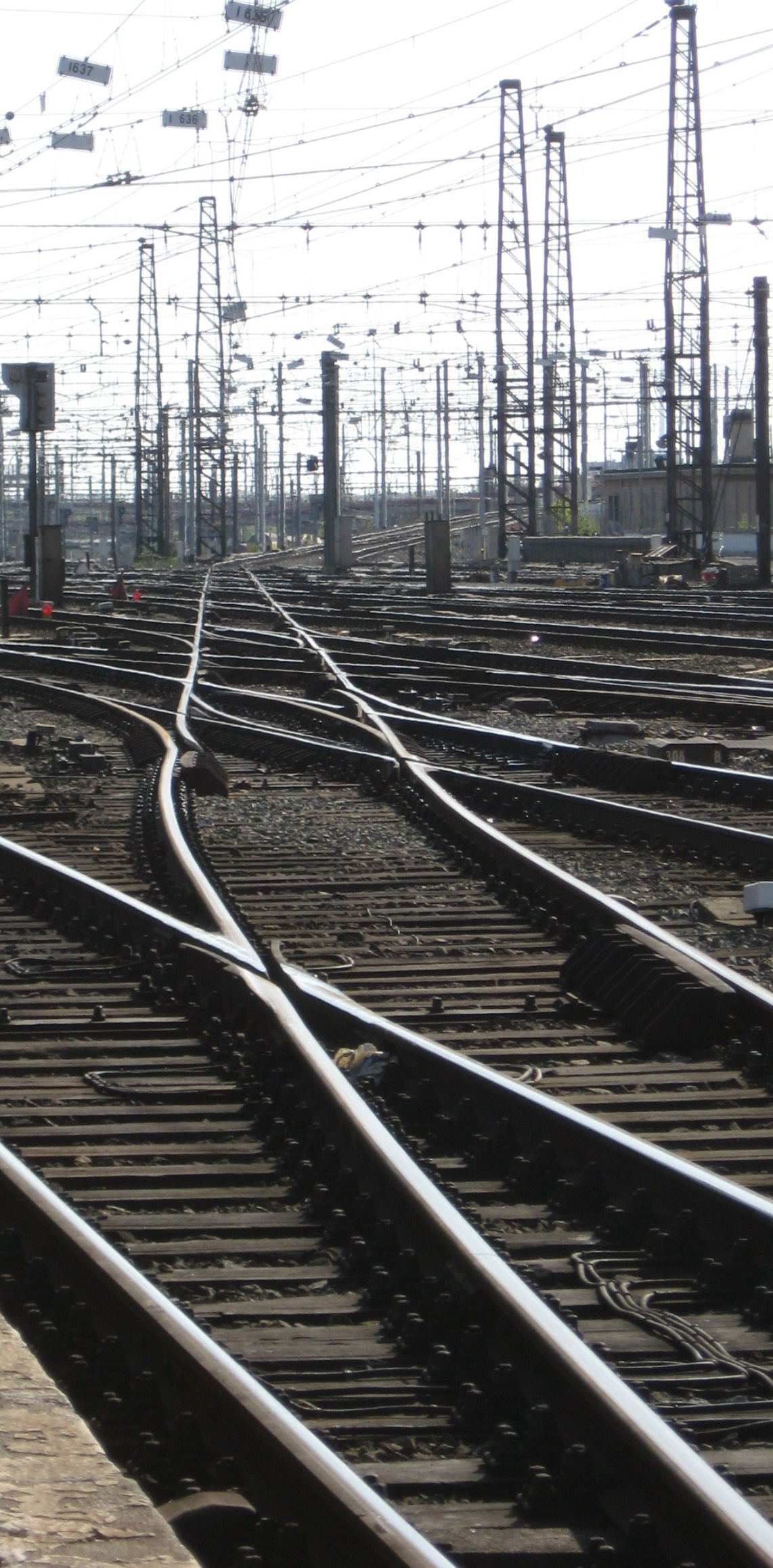 Diagonal track connecting all tracks with points. Leads to the viaduct for line 96N at Brussels Midi.